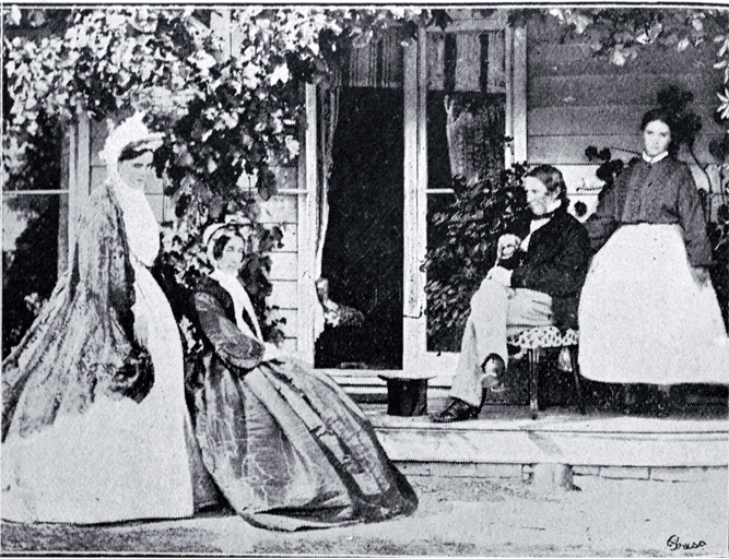 Mr Justice Gresson and family. Henry Barnes Gresson (1809-1901), an Irish lawyer, emigrated at 45, losing his possessions, including a then rare and substantial collection of law books, on the Sumner bar. He was, from 1857-1875, Canterbury's Supreme Court judge. He resigned when the Bench considered its independence was being hampered by the possibility of the Government moving judges to different localities as it chose.